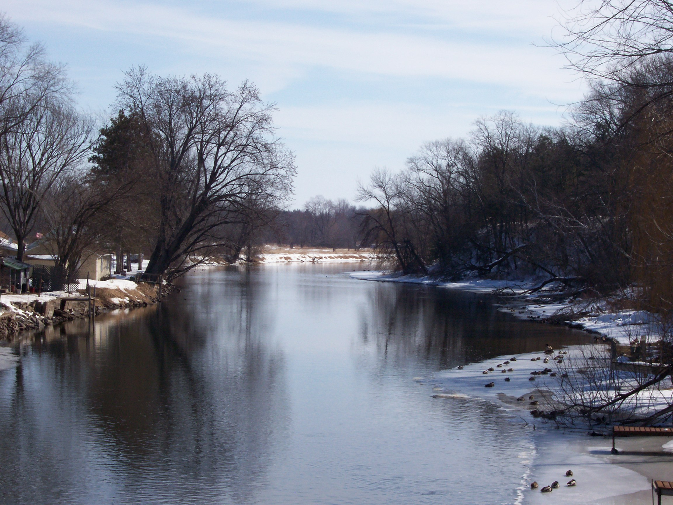 Looking east at the Fox River in Montello, Wisconsin, USA. Taken March 11, 2007 by myself.